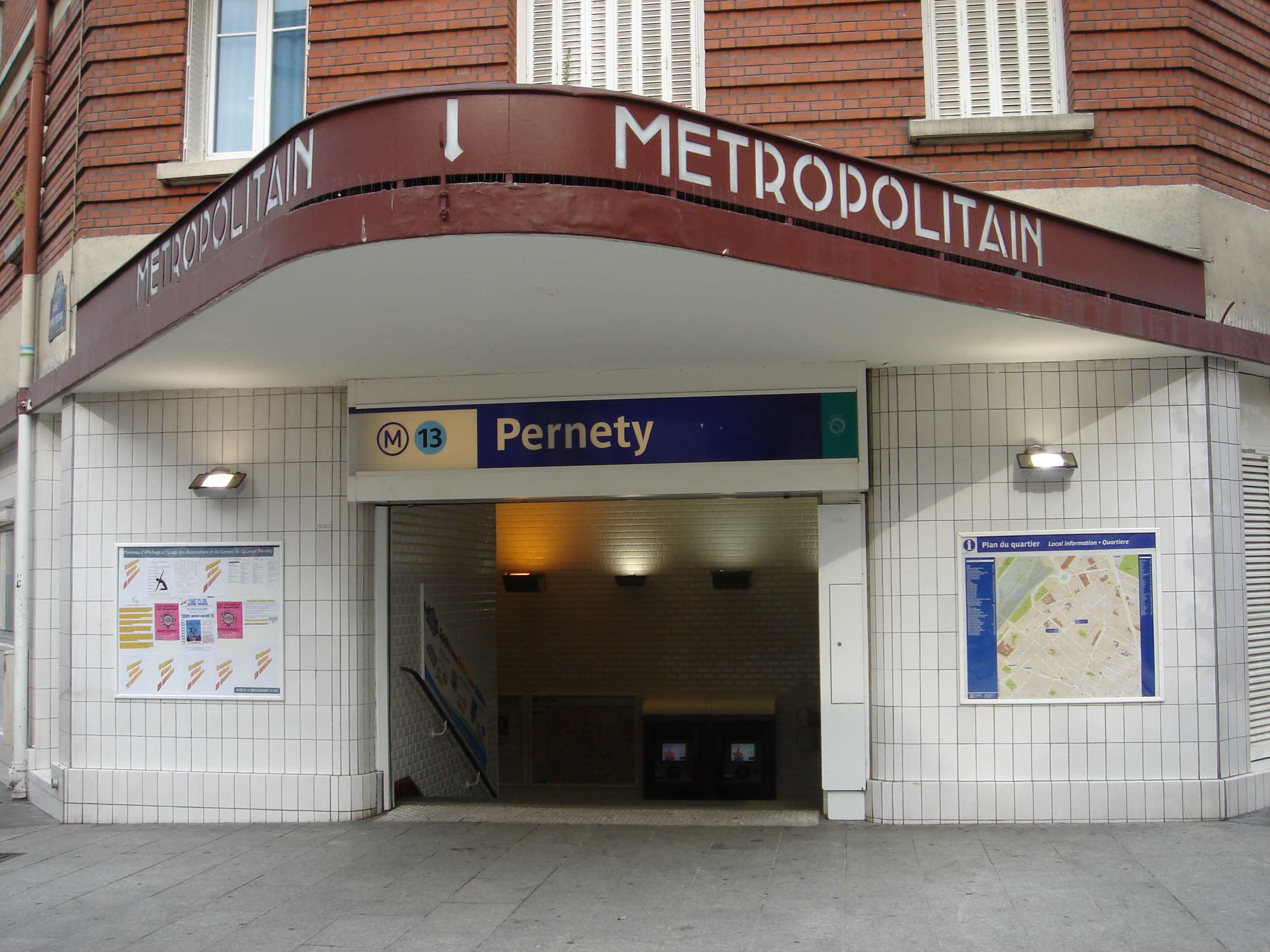 Pernety metro station